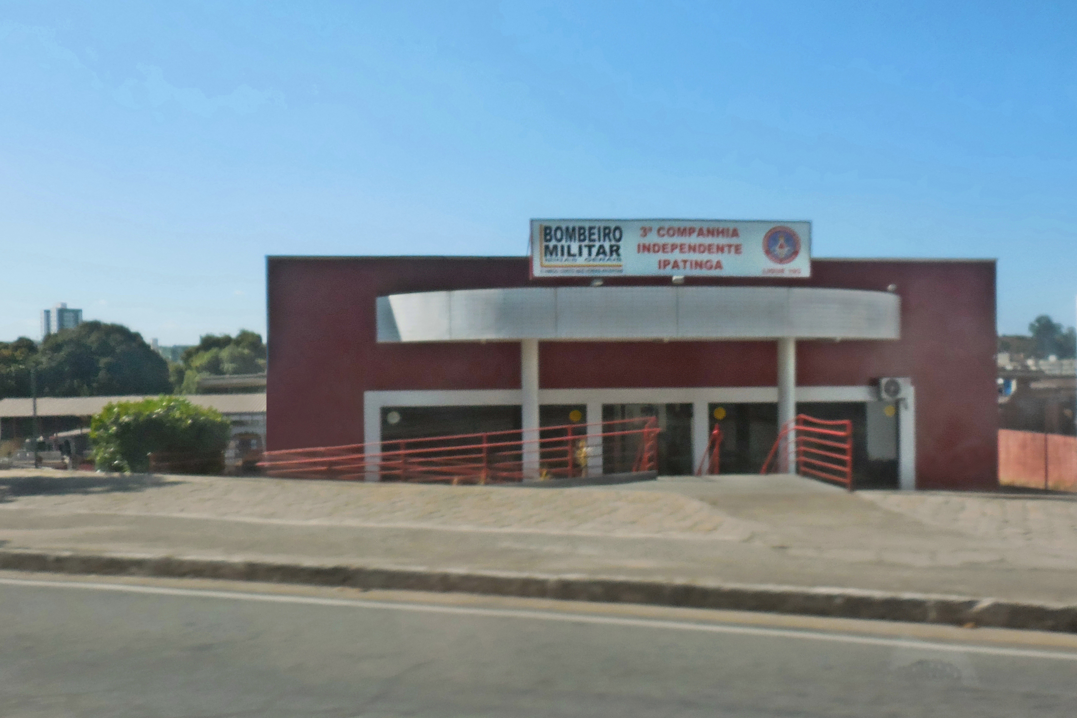 Head office of the 3rd independent company of the firefighter of Ipatinga, Minas Gerais, Brazil.